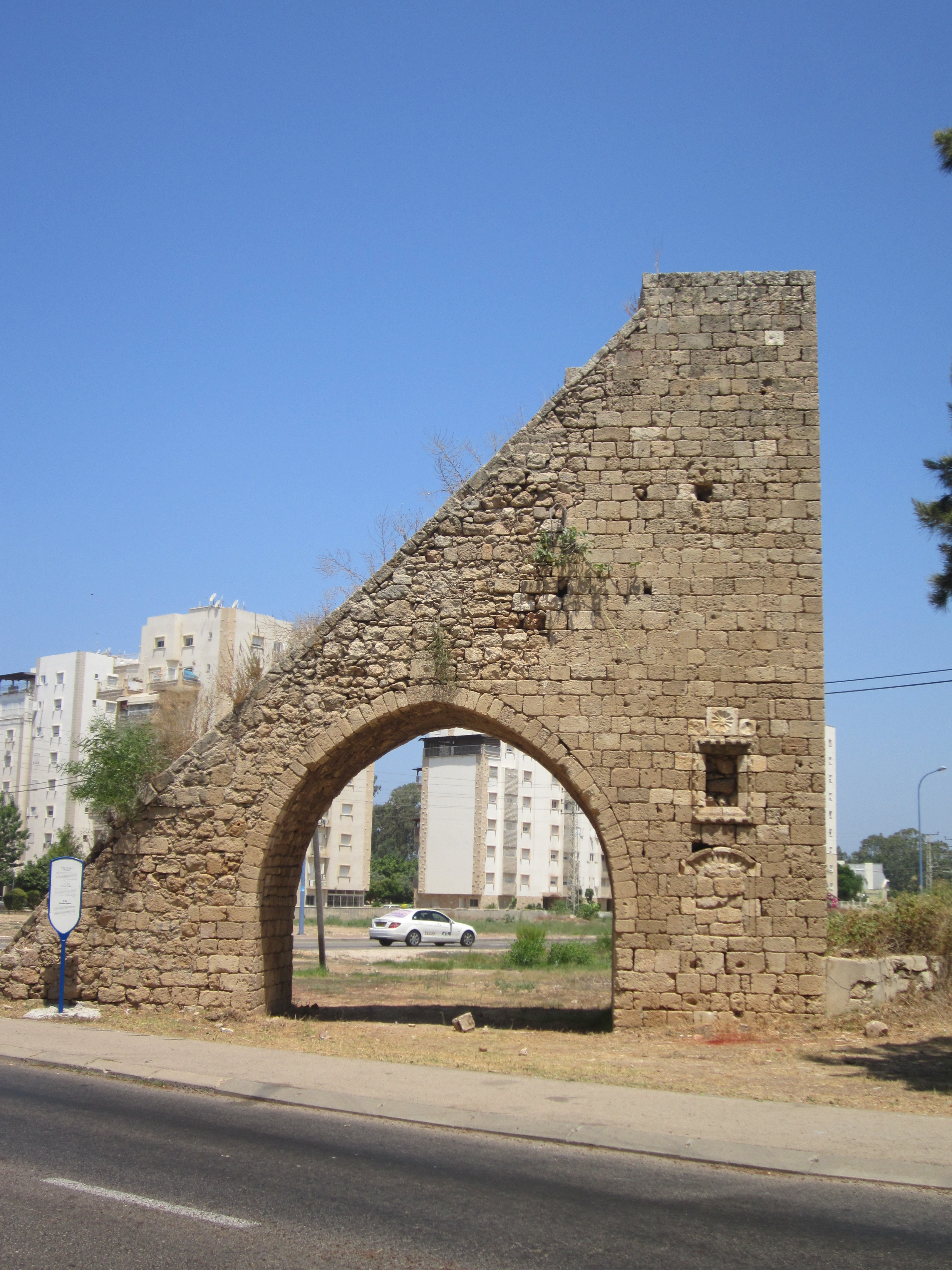 Curved toer, remaines of ancient aquaduct near West Galillee college Acre